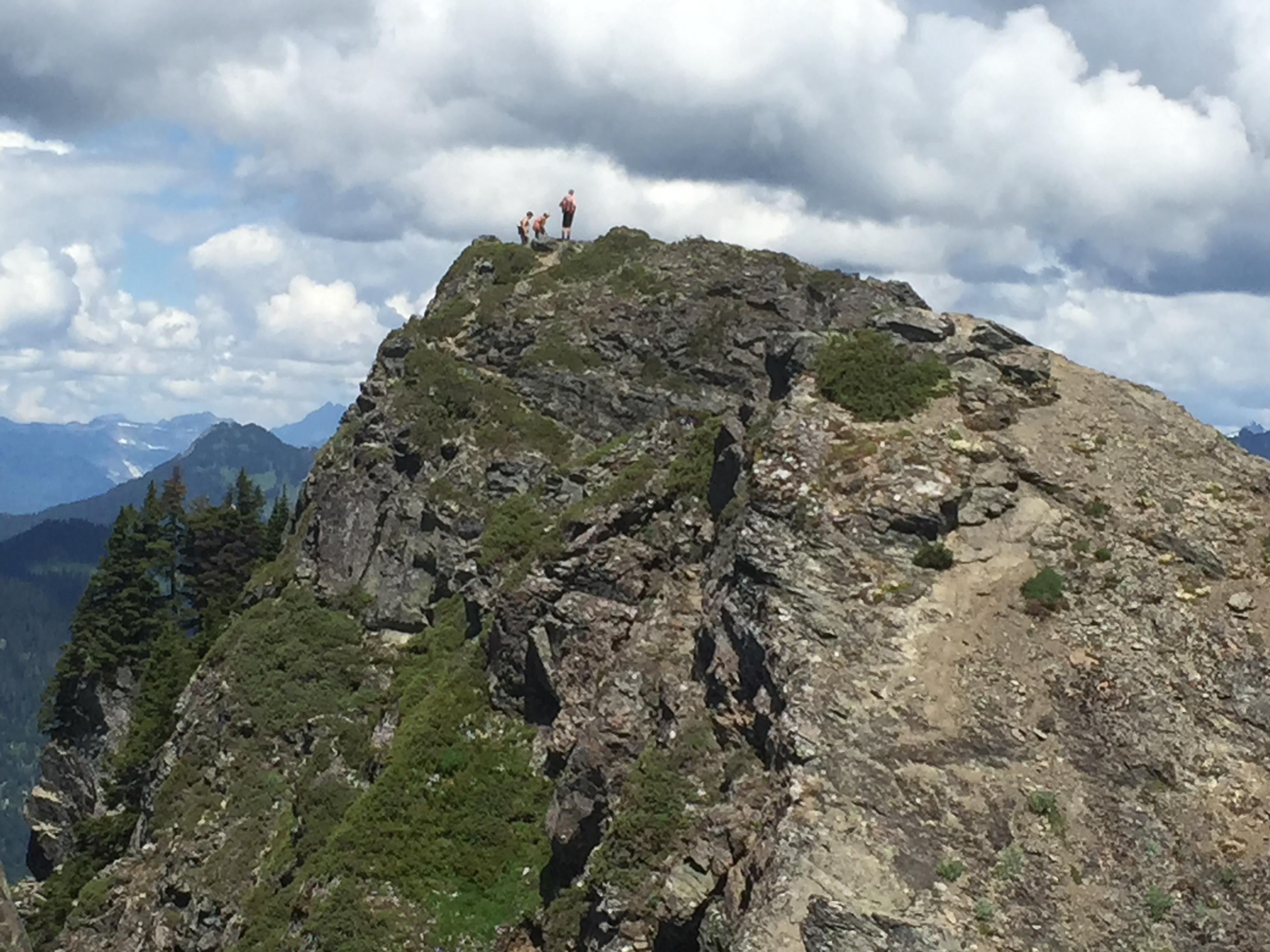 Sauk Mountain in the North Cascades of WA